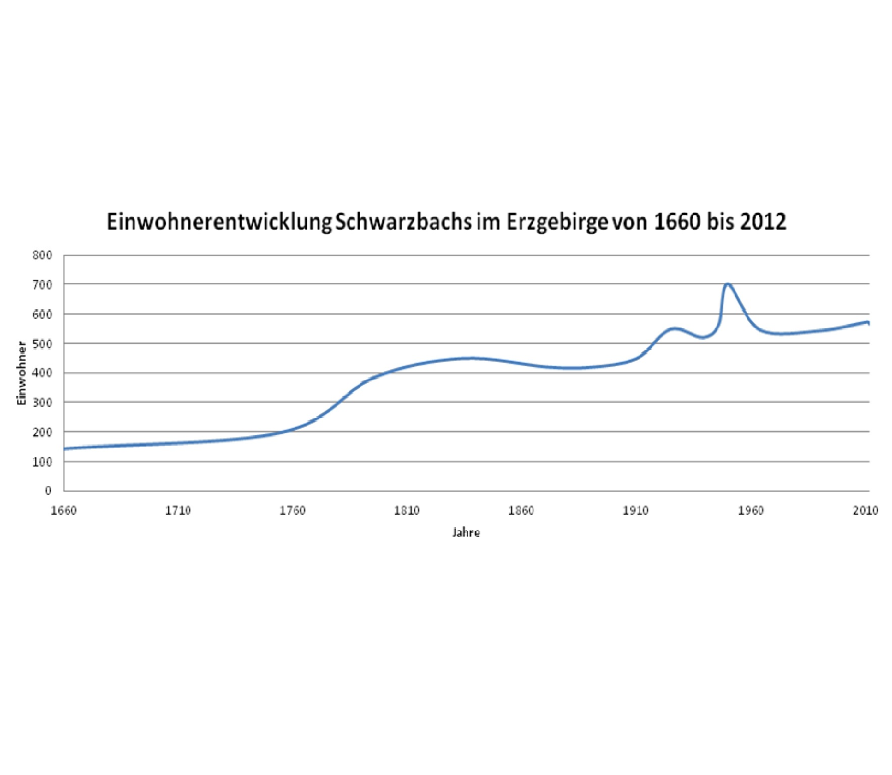 Population of the German village Schwarzbach im Erzgebirge 1660 - 2012